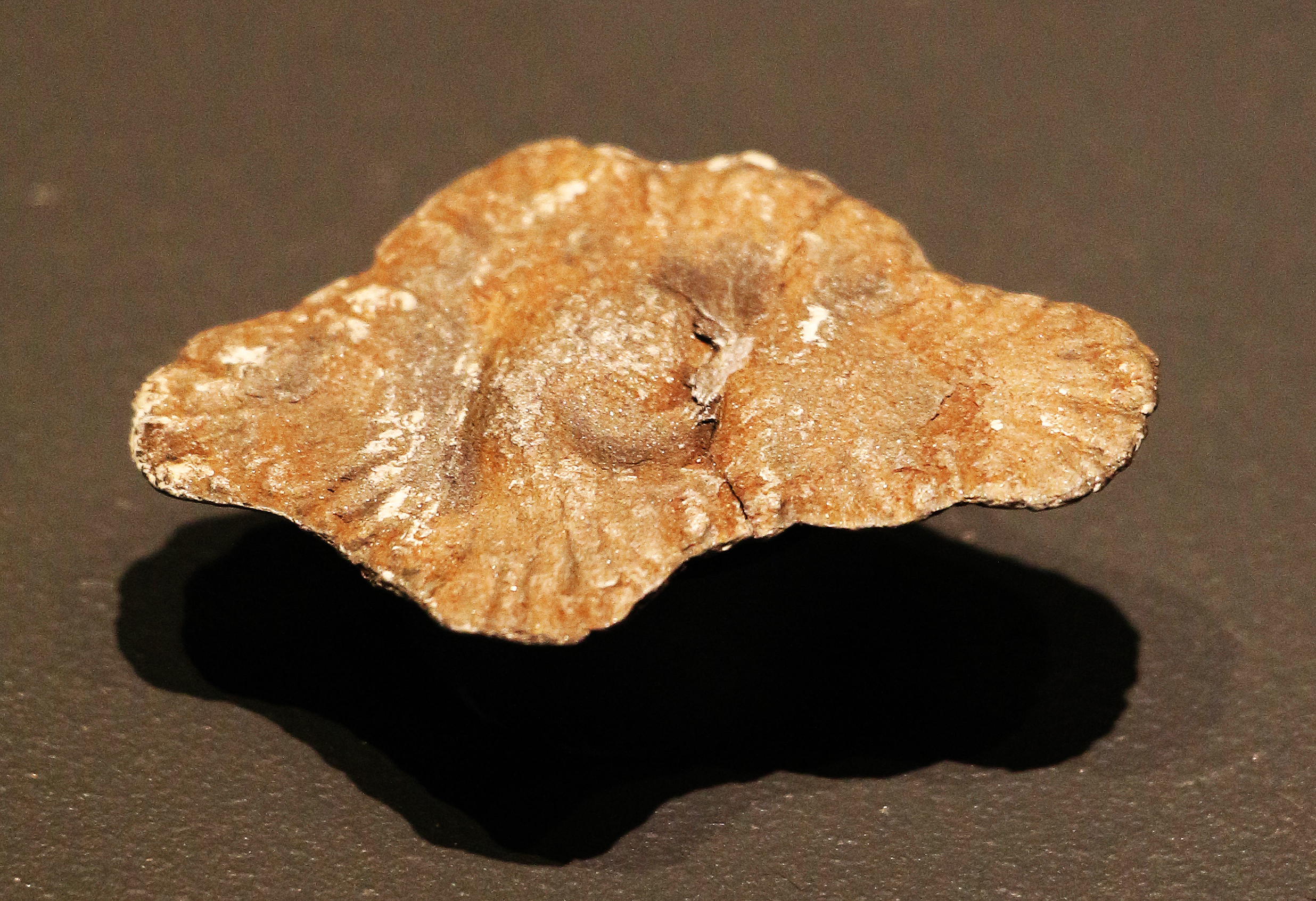 oldest multizelluar eucaryotic life